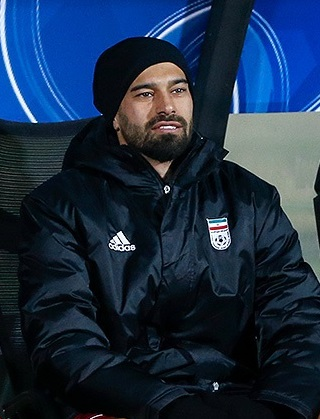 Ramin Rezaeian